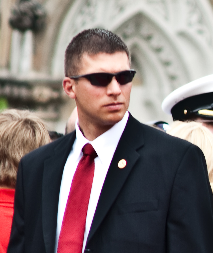 Security